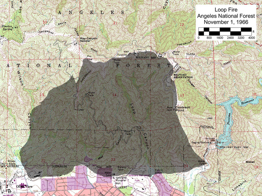 November 1st 1966 Loop fire perimeter